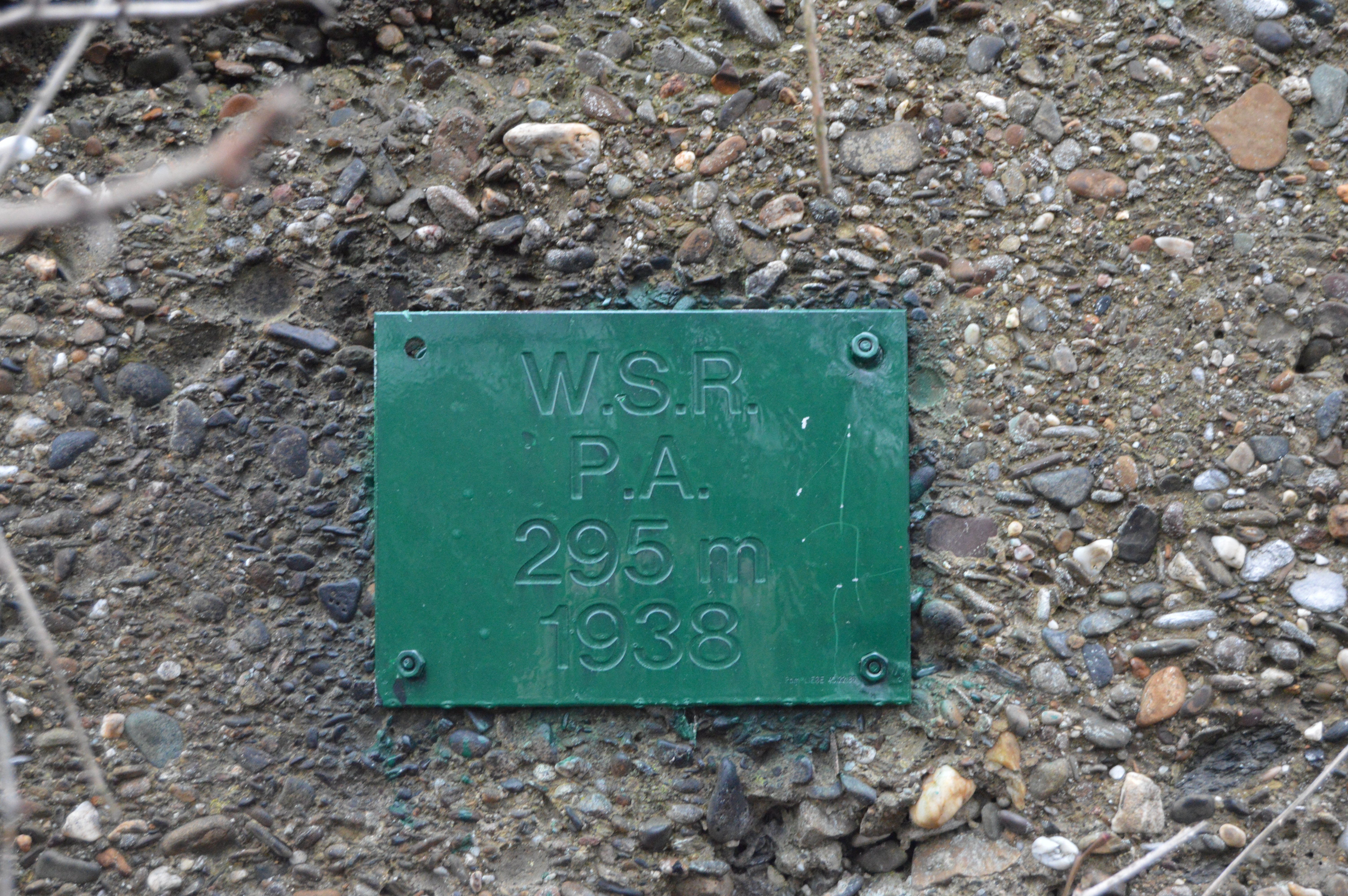 Ancient pit the Basse Ransy coal mine in Vaux-sous-Chèvremont, Belgium